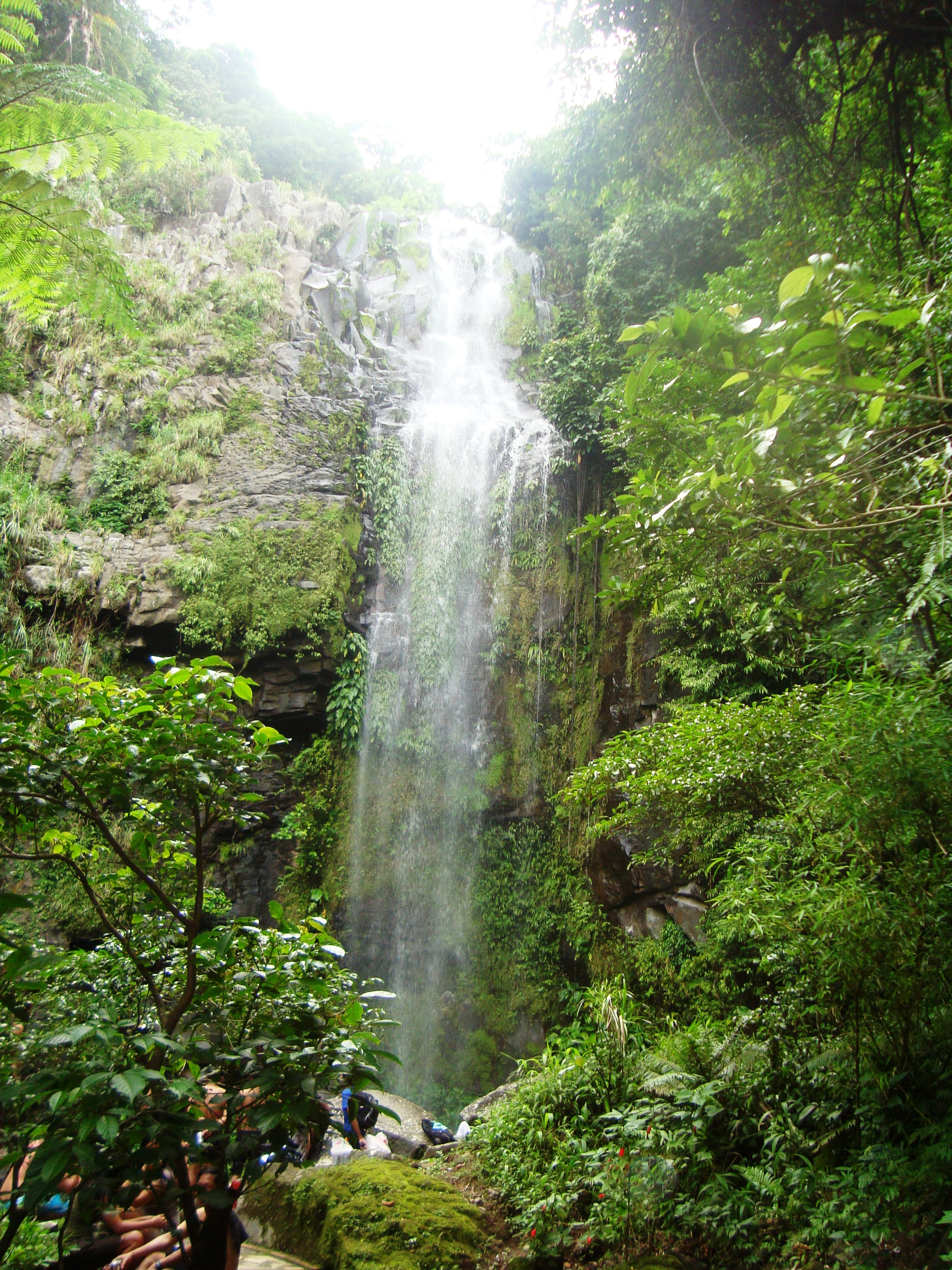 One of the Falls at Mt Isarog, Consosep, Ocampo, Camarines Sur